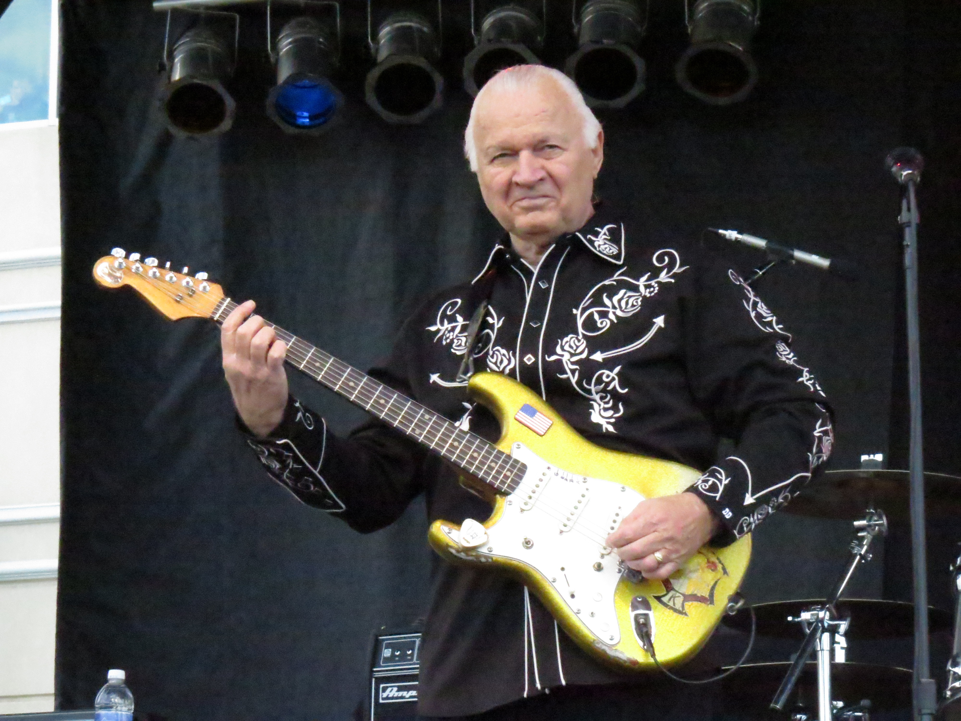 Dick Dale performing at the Orleans Hotel and Casino, Las Vegas